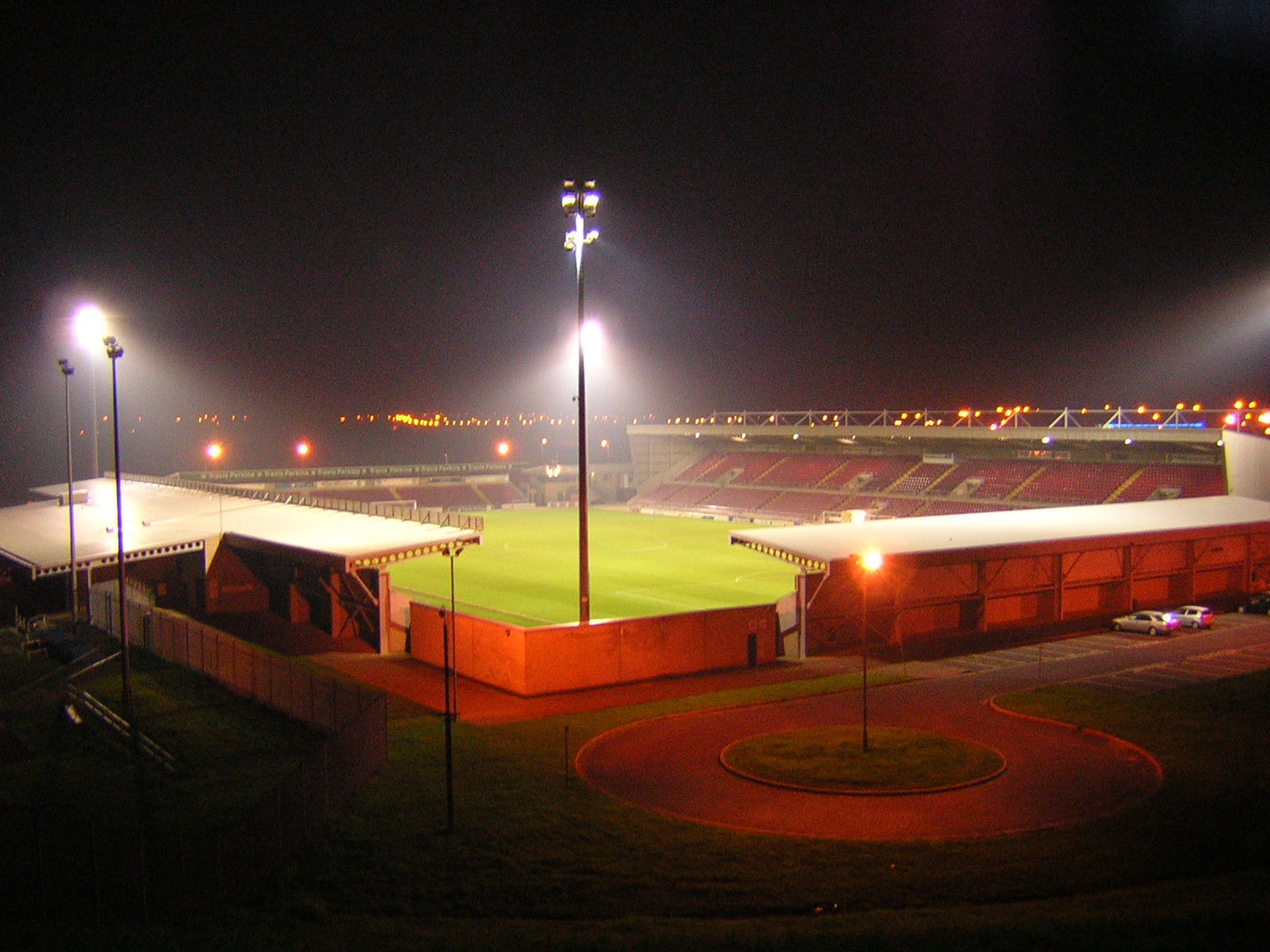 Sixfields Stadium at night